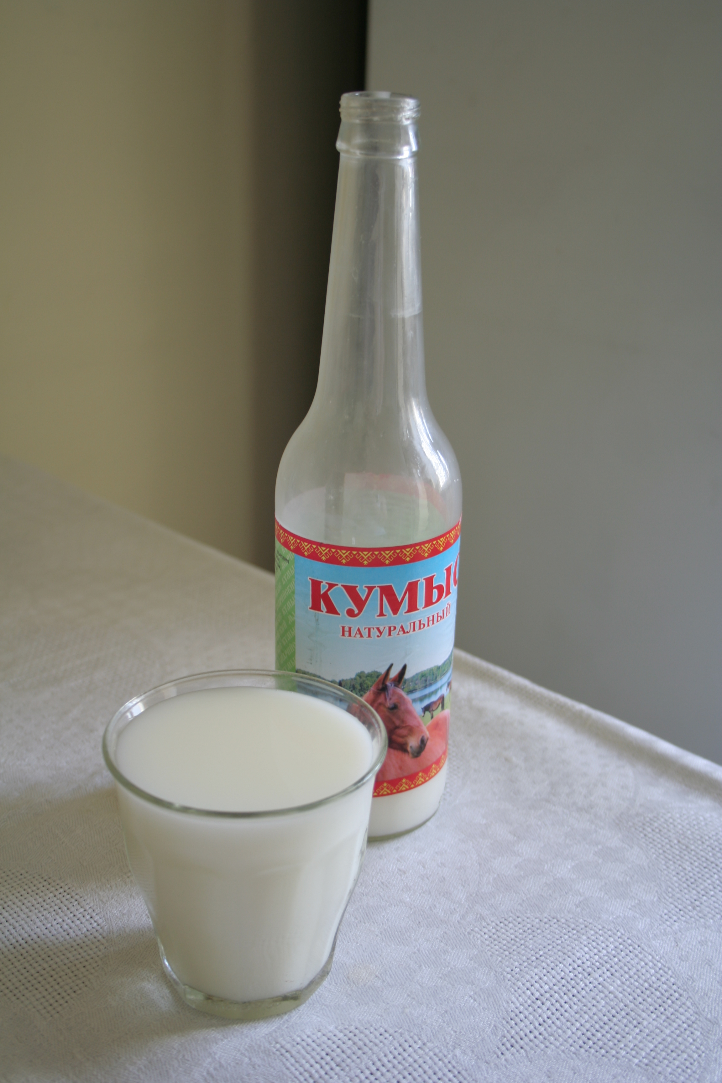 A glass of kumis from the russian republic Mari El. This kumis is being filled in bottles and is available e.g. in Moscow.